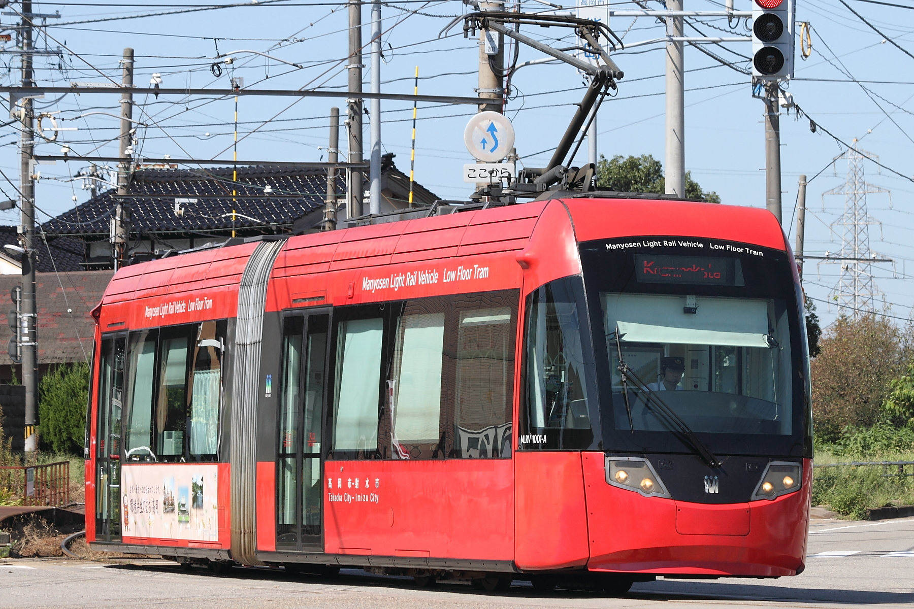 Man'yosen type MLRV1000 low-floor tram, car number 1001.